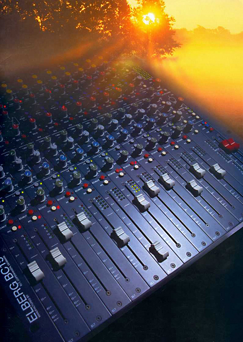 Sound mixer, model ELBERG BC15, produced in Denmark